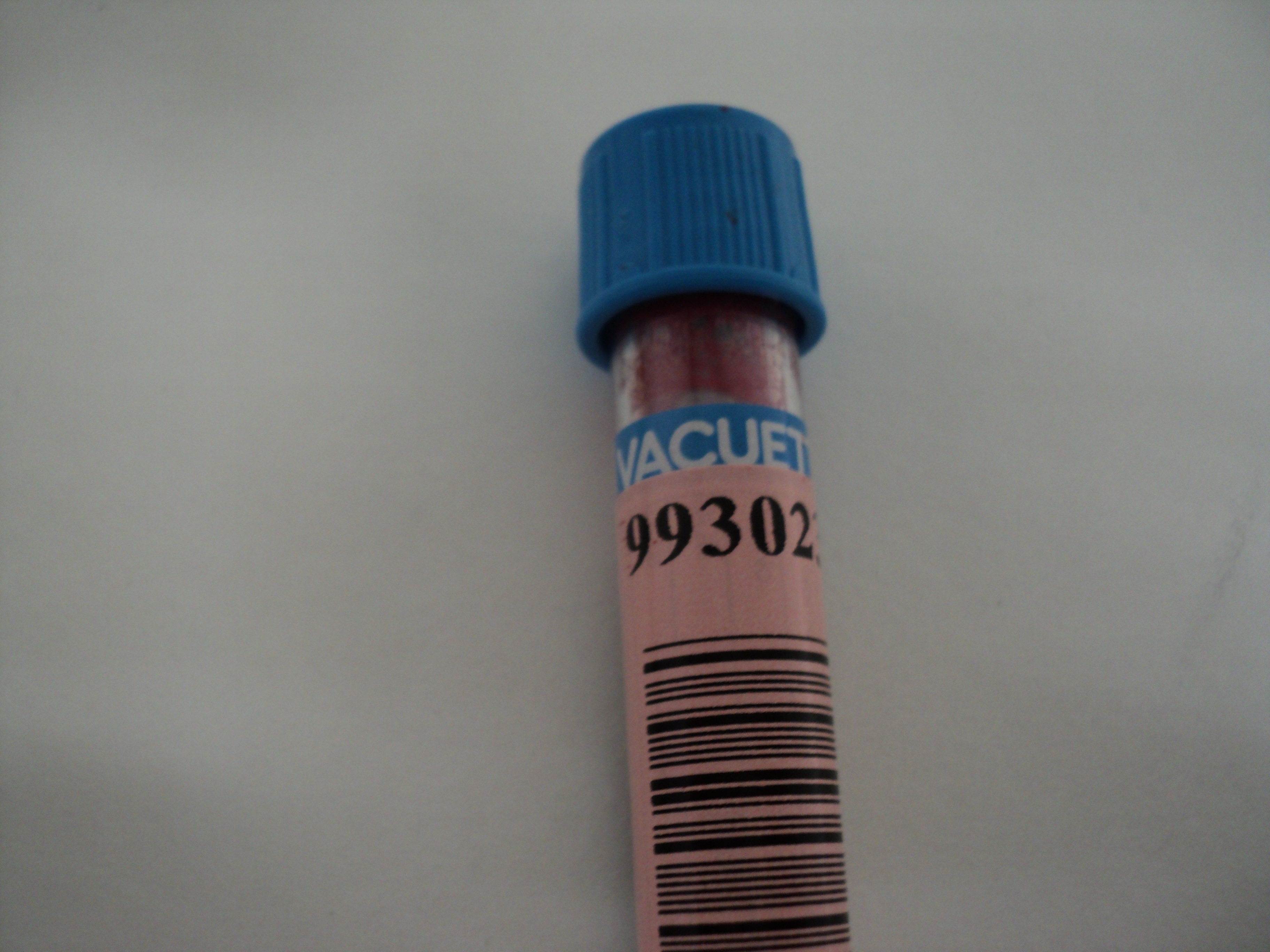 Tube with bars code. Its usefull for automated analyzers.